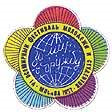 Logo of the 6th World Festival of Youth and Students 1957 in Moscow